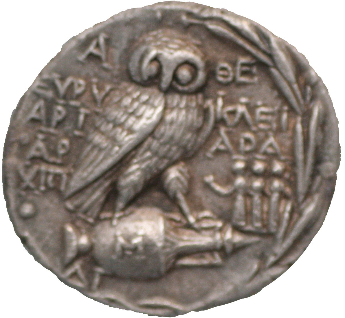 Owl standing on oil amphora, all surrounded by a wreath of olive leaves. Silver tetradrachm from Athens, "new style" (ca. 200-150 BC), reverse.